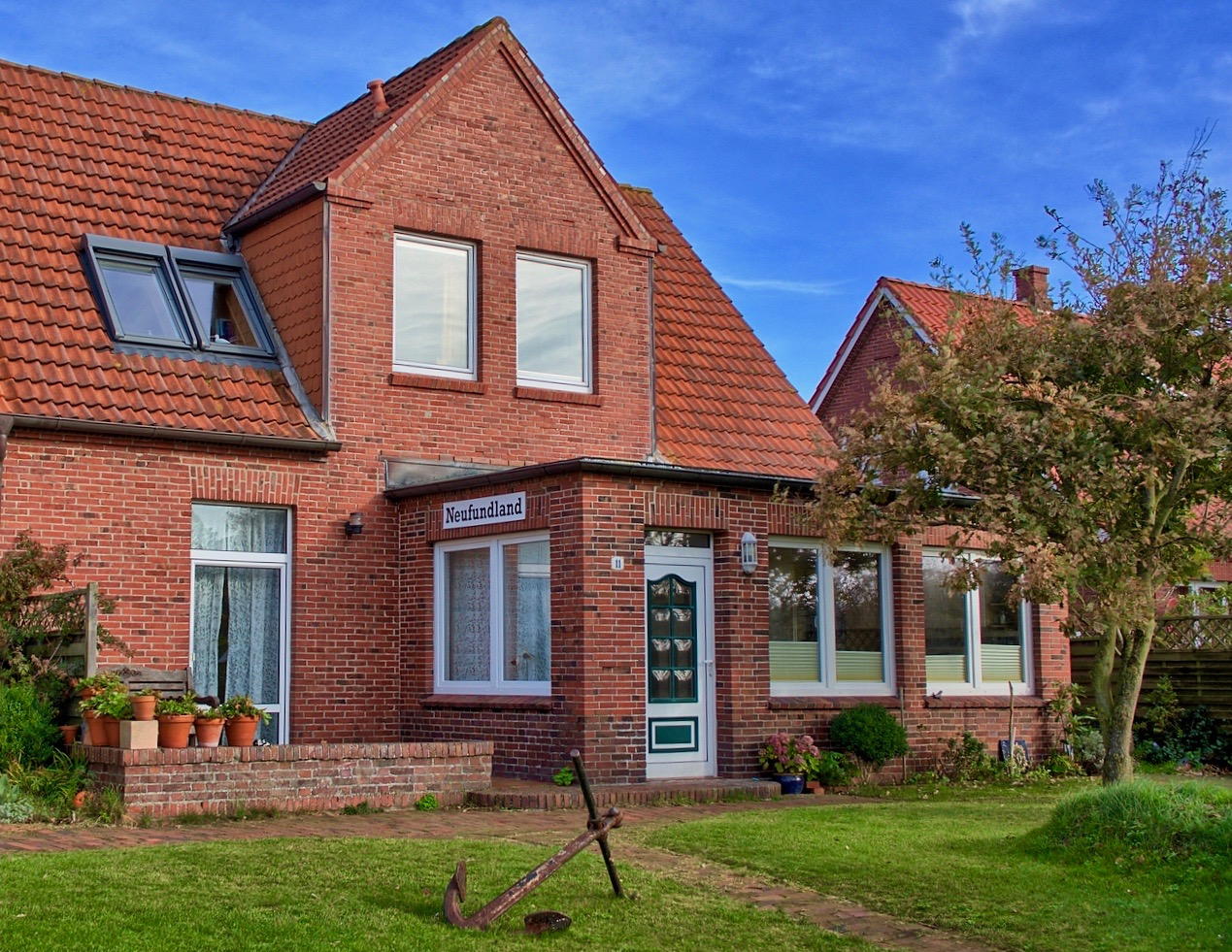 South-westerly view: 'Neufundland' has been a residential building for the youngest pupils of former progressive Schule am Meer (= School by the Sea) on Juist Island. Built in 1929 as a private home it was leased to the school soon after completion. Today it is part of a private home used as a boarding house for tourists.